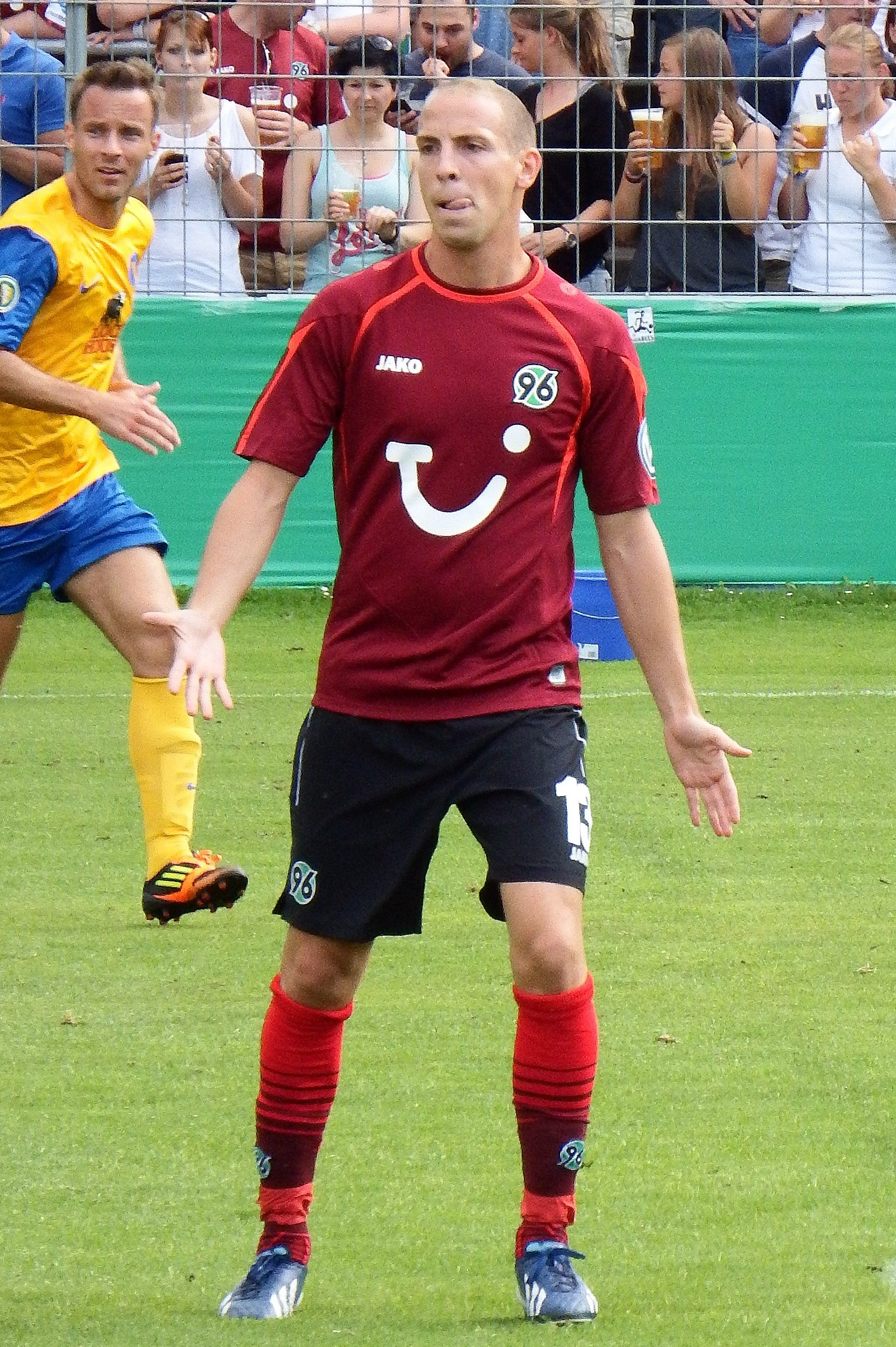 Jan Schlaudraff as Player of Hannover 96